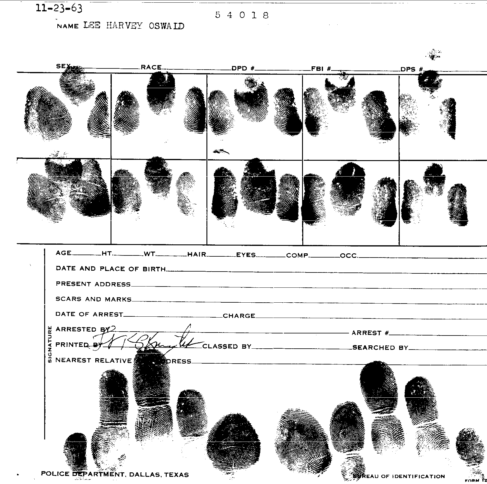 Fingerprints of Lee Harvey Oswald